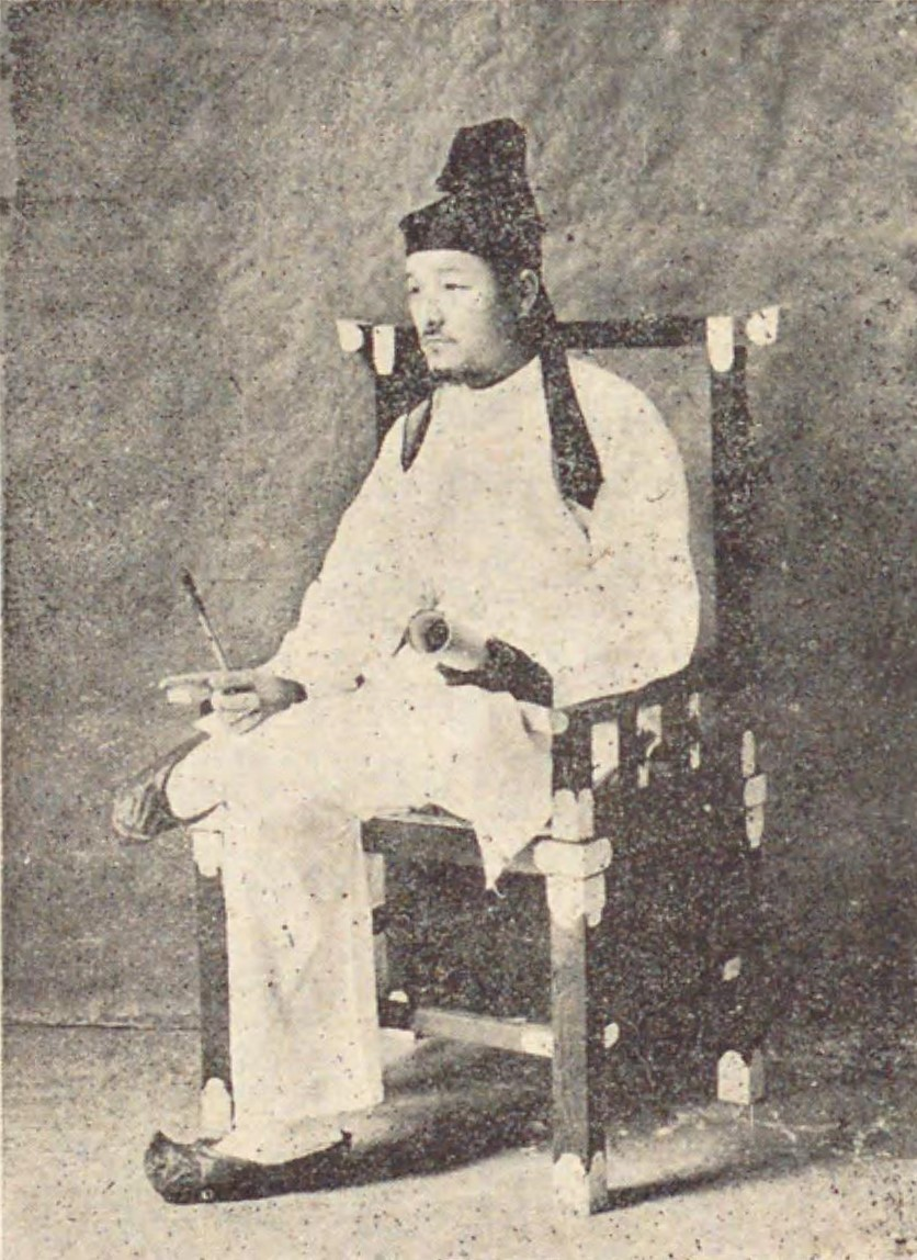 The re-enactment of the costume of Kokushi (province governer) in ancient Japan for the design of first census stamp by Hibata Sekko and Takahashi Kenji.